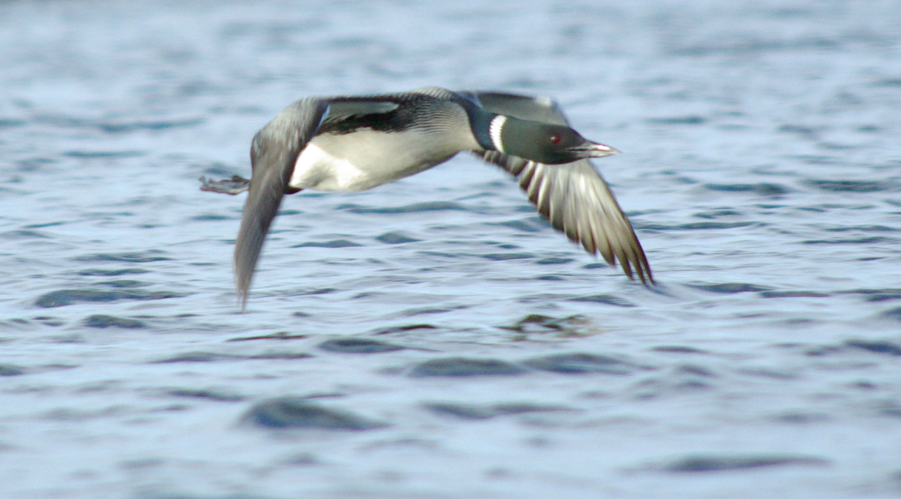 A Great Northern Loon (also known as the Great Northern Diver and the Common Loon) flying in Marshfield, Vermont, USA.